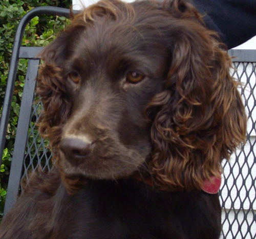 A wavy-coated female Boykin Spaniel